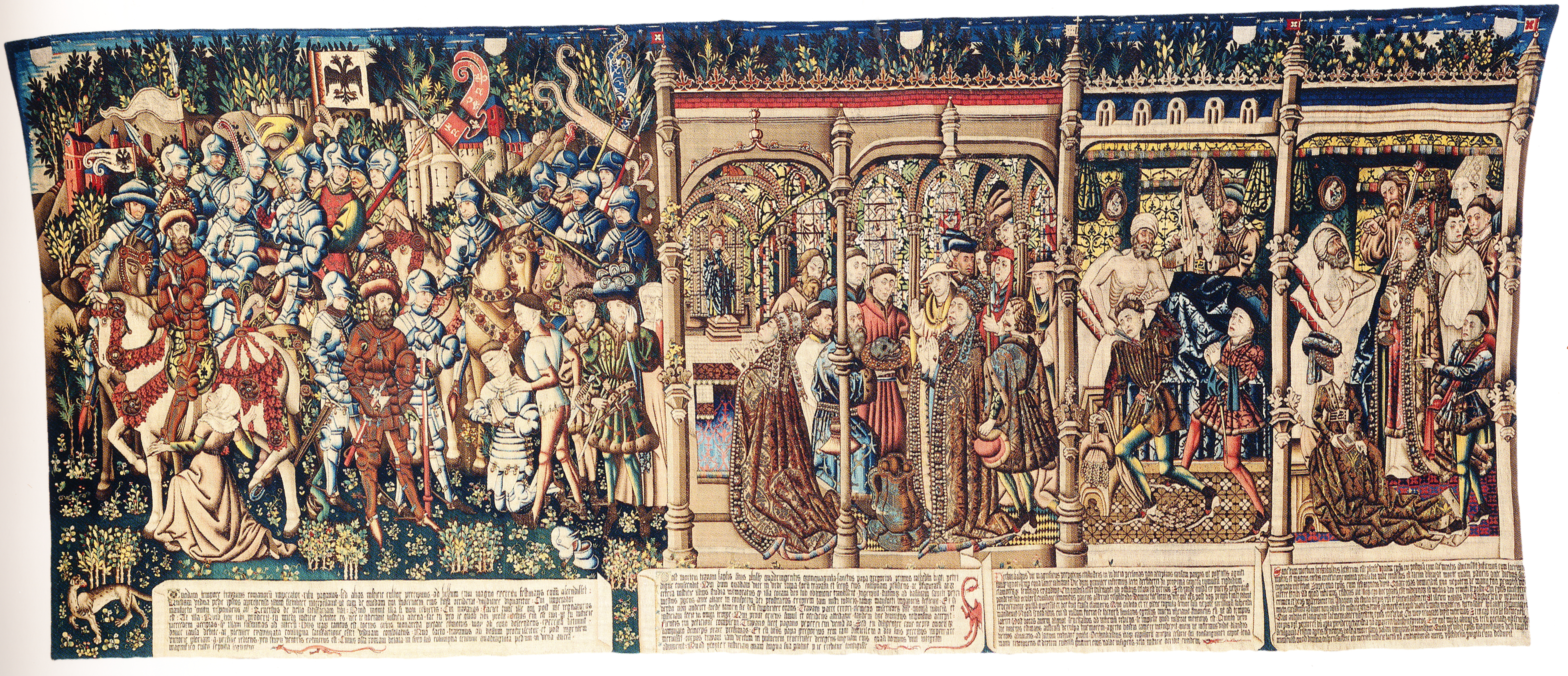 The Justice of Trajan and Herkinbald, a medieval tapestry currently in the Historical Museum of Bern.